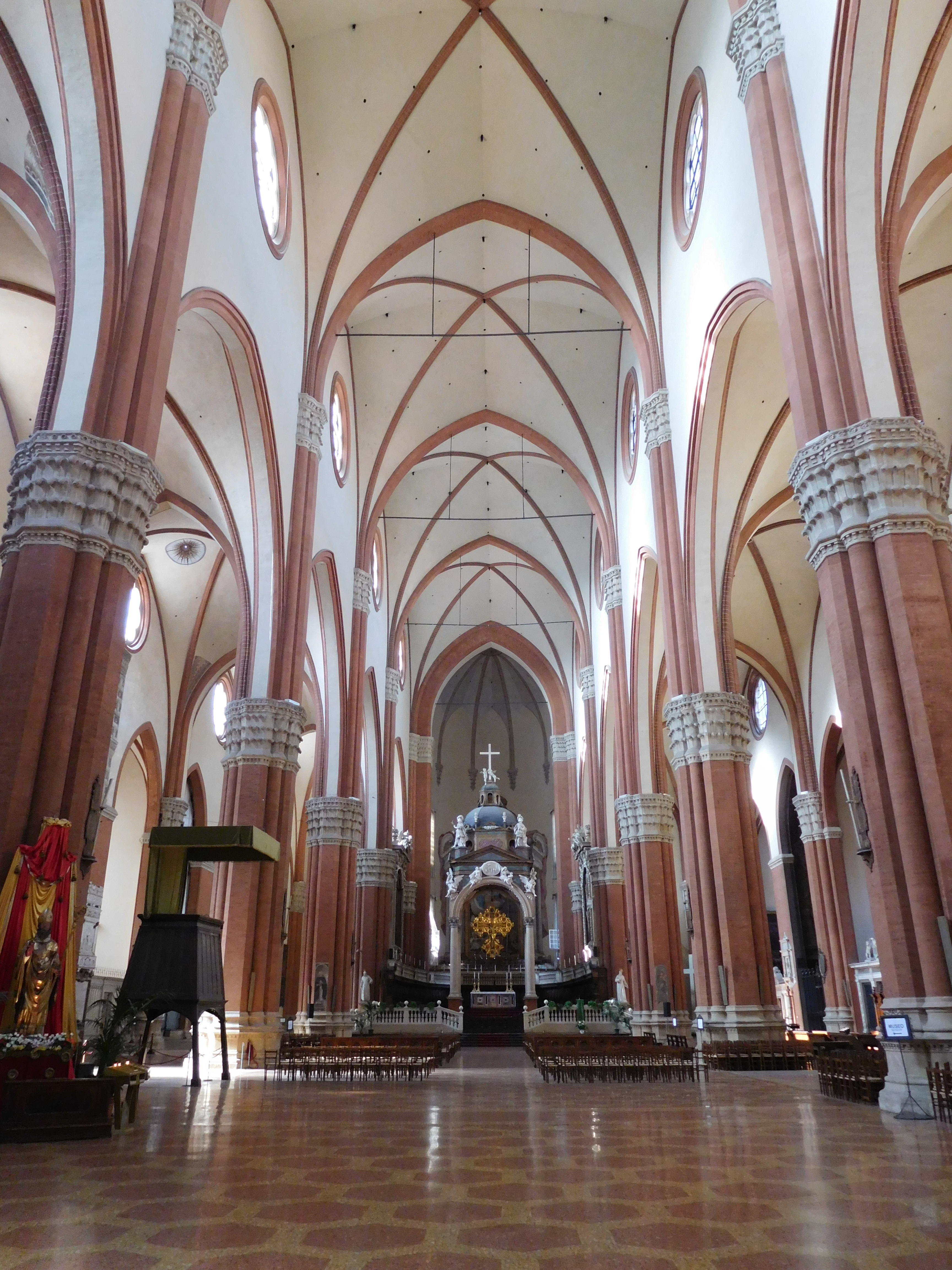 Interior of San Petronio, Bologna